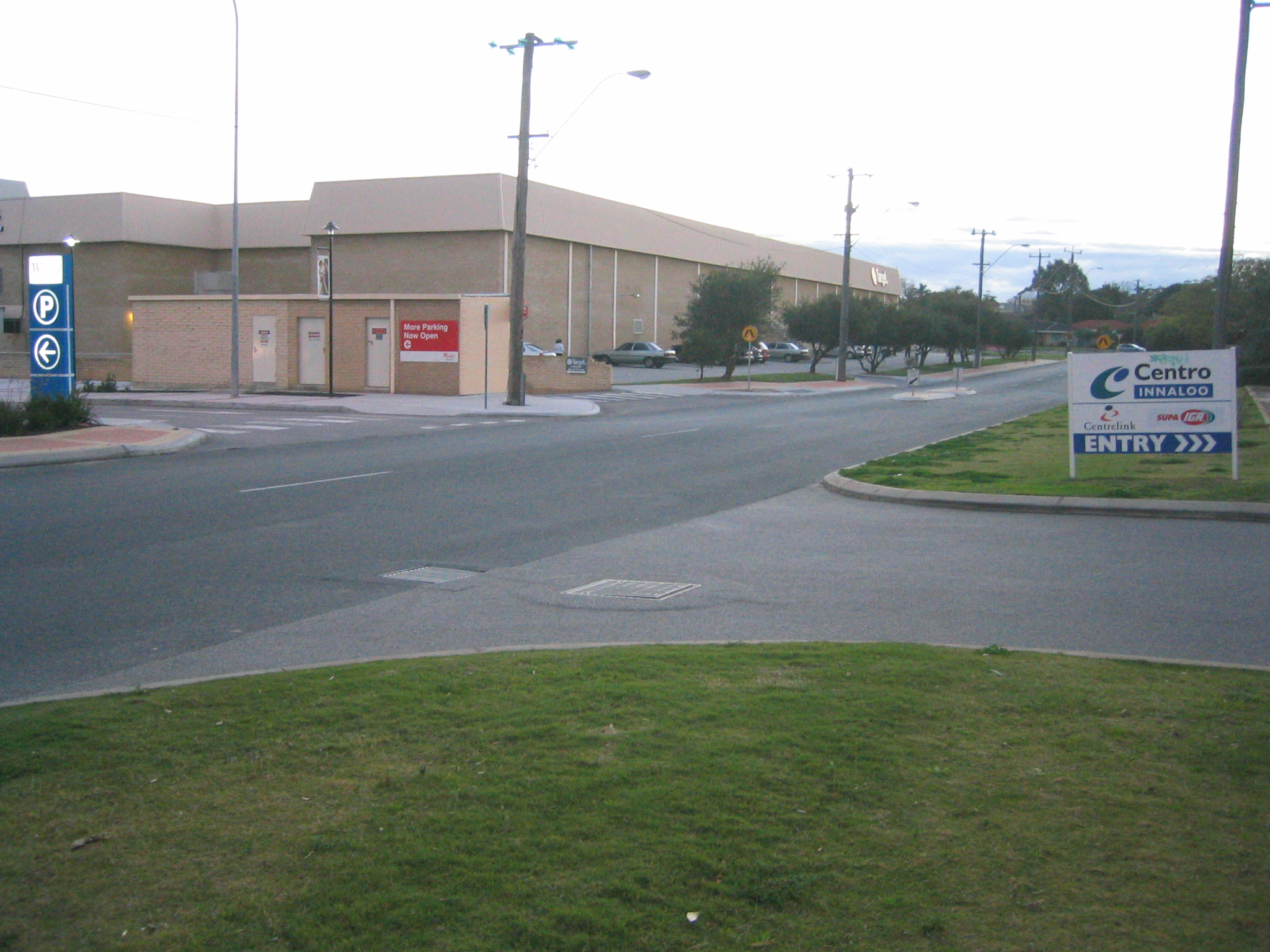 Oswald Street at Innaloo, Western Australia. This photo shows that the Oswald Street is divided the Westfield Innaloo and Centro Innaloo shopping centres, which Westfield is on the left and Centro is on the right.